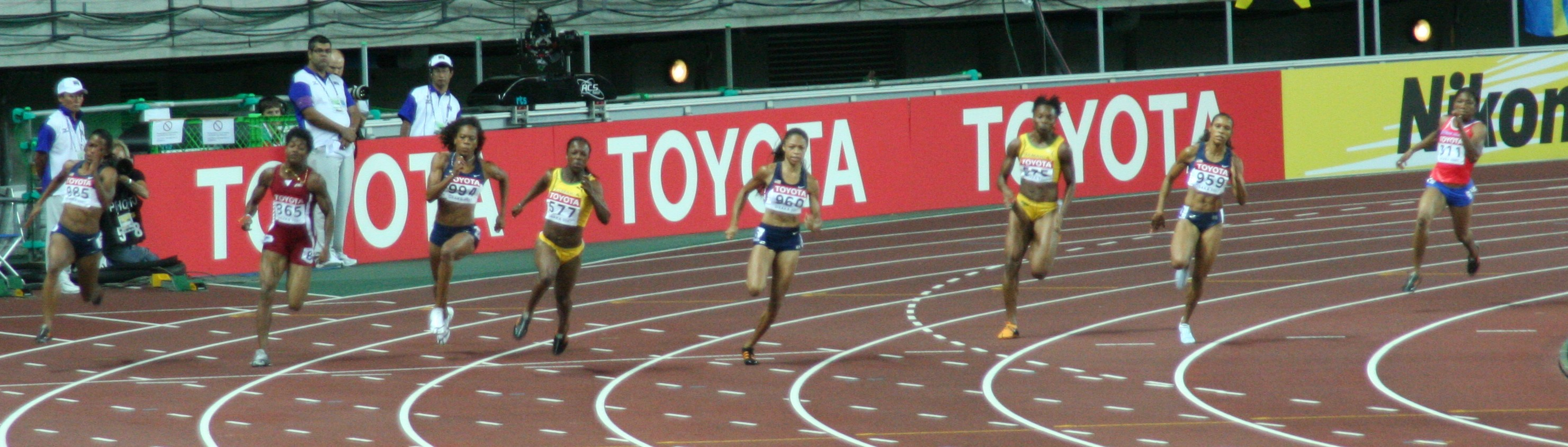 World Athletics Championships 2007 in Osaka - Scene from the women*s 200 metres final: LaShauntea Moore, Susanthika Jayasinghe, Sanya Richards, Veronica Campbell, Allyson Felix, Aleen Bailey, Torri Edwards, Cydonie Mothersill